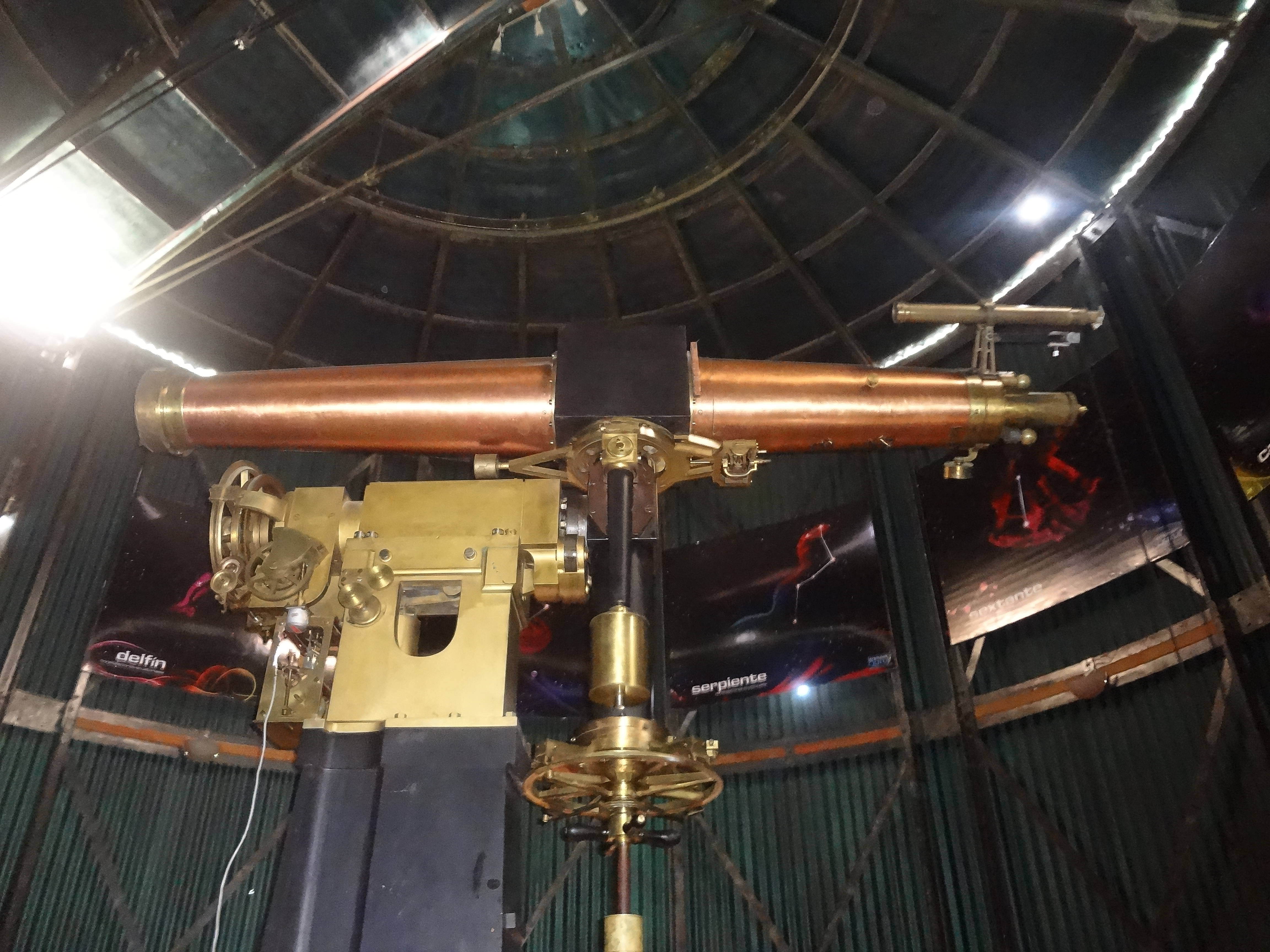 (Side View) Inside the Quito Astronomical Observatory is this 1875 Georg Merz and Sons, 24cm (9.4 inch) vintage refracting telescope on an Equatorial mount. El Centro Histórico de Quito Ecuador South America Historic Center of Quito - UNESCO World Heritage Site Photography by David Adam Kess